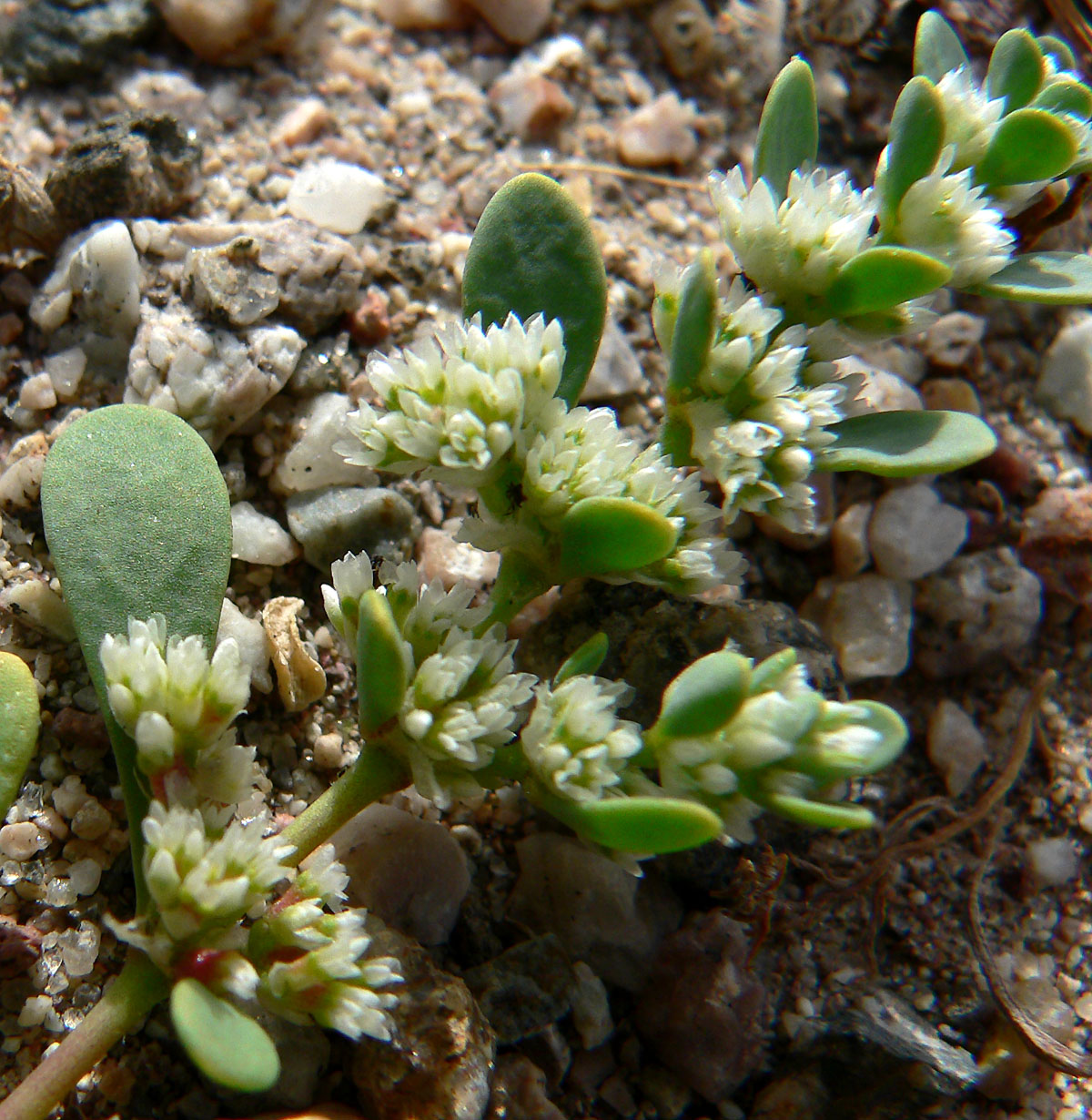 Achyronychia cooperi near route 190 between Willow Creek and Ashford Junction, Death Valley National Park